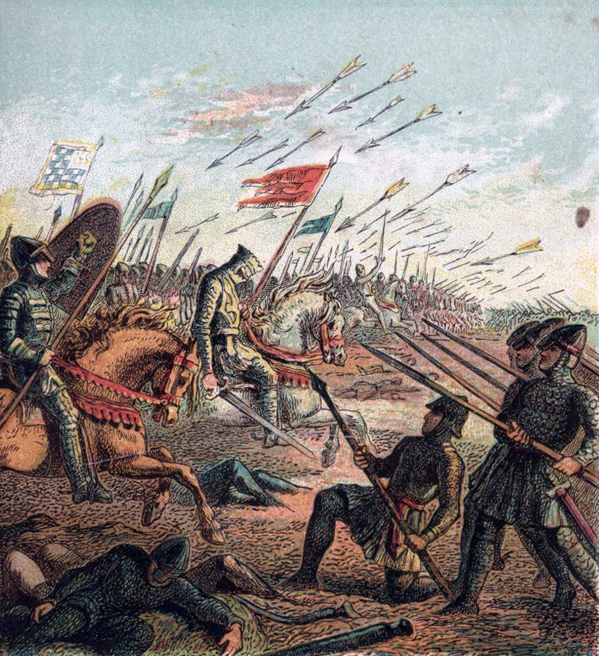 The Battle of Hastings